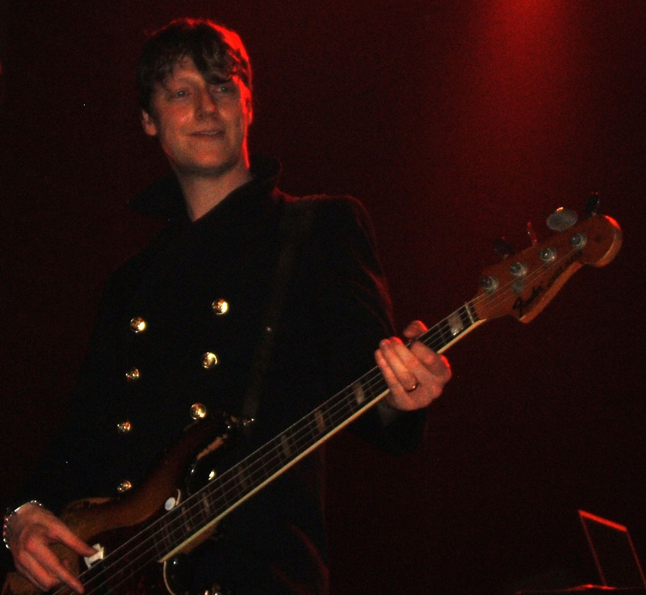 Dougie Payne at the Casino de Paris